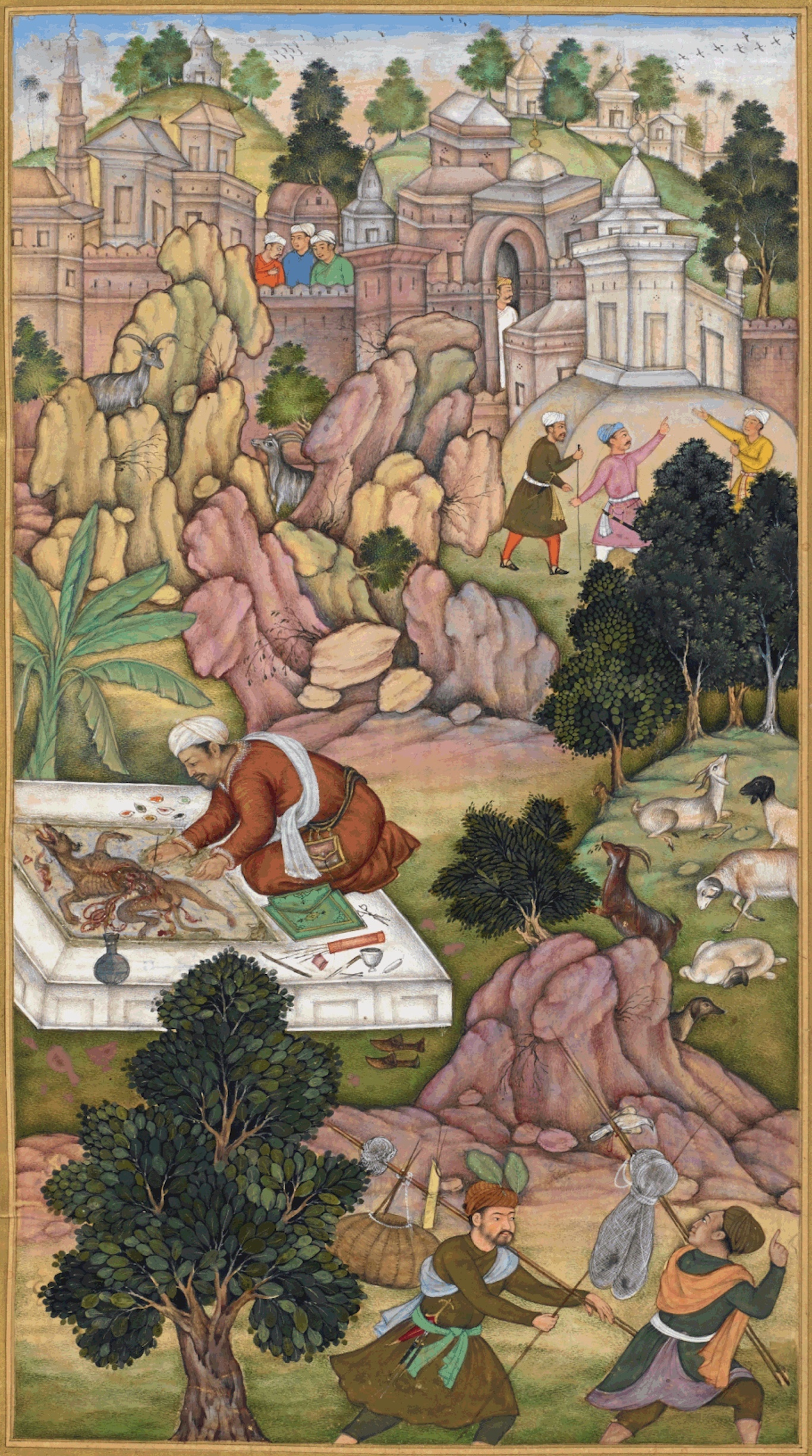 Mani Painting a Dead Dog by Sūr Gujarātī, folio 262b in the Ḳamsa of Nizami, detail (H: 19.8 cm), gouache on paper. Agra (India), ca. 1610 CE, Mughal period. British Library, London (Or. 12208). Source: Mani’s Pictures: The Didactic Images of the Manichaeans from Sasanian Mesopotamia to Uygur Central Asia and Tang-Ming China by Zsuzsanna Gulácsi, page 192.